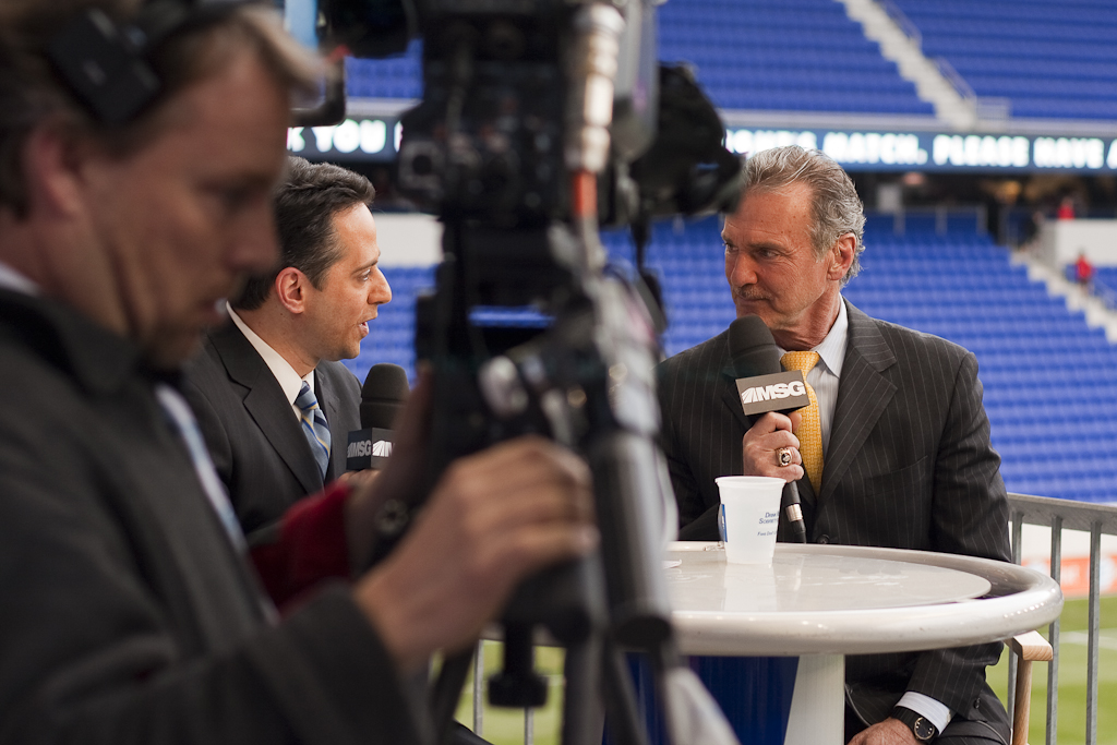 Former US goalkeeper and MSG analyst Shep Messing after a match between the New York Red Bulls and Philadelphia Union.